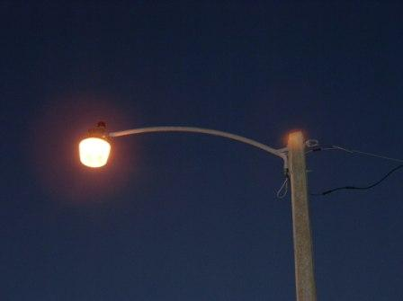 Example of a high pressure sodium vapor streetlight